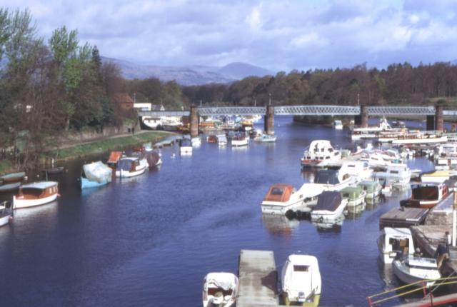 River Leven